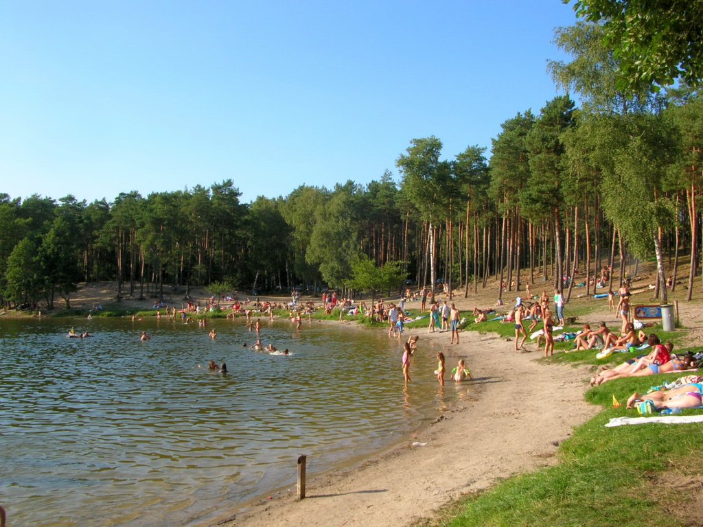 Jezuickie Lake